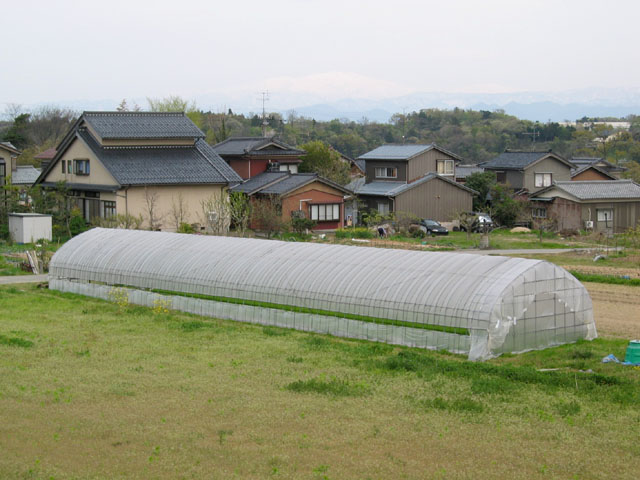 Greenhouse for rice in Japan.